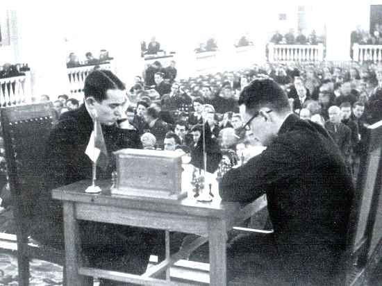 Botvinnik vs Flohr match in 1933